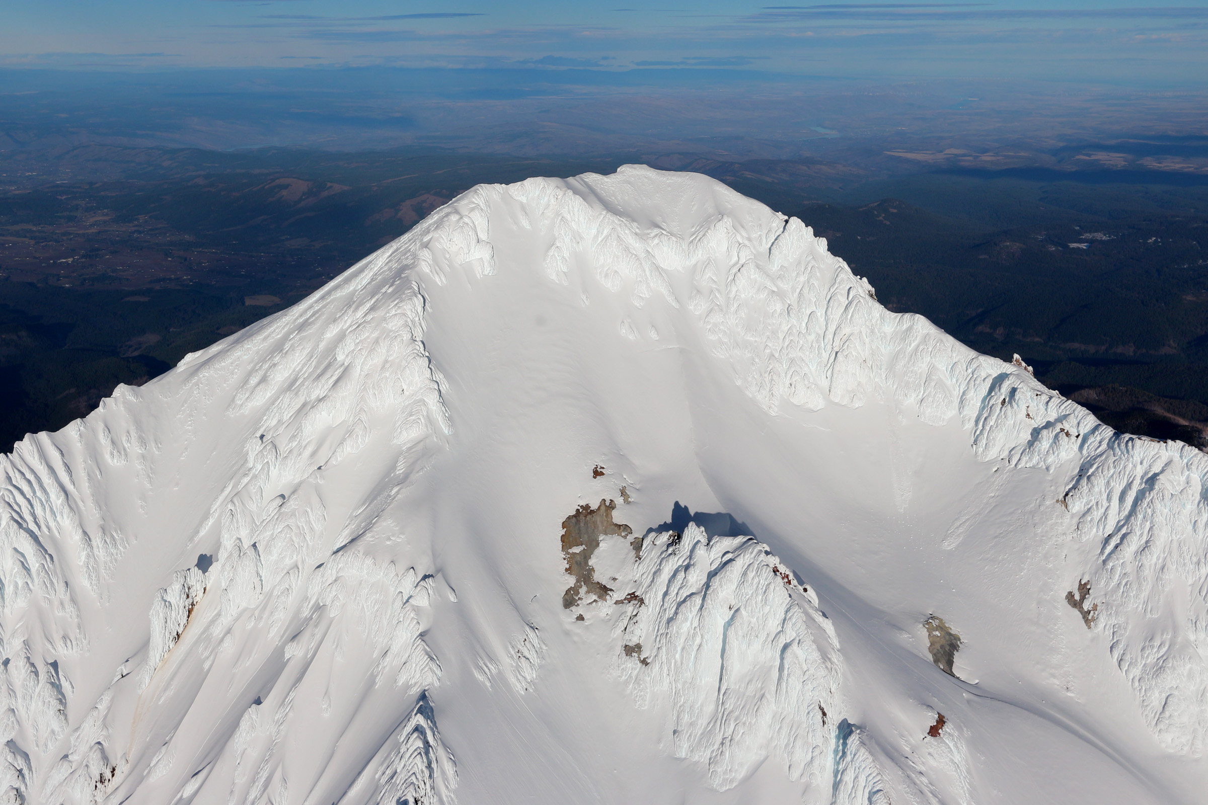 Aerial photograph of Mt. Hood's summit